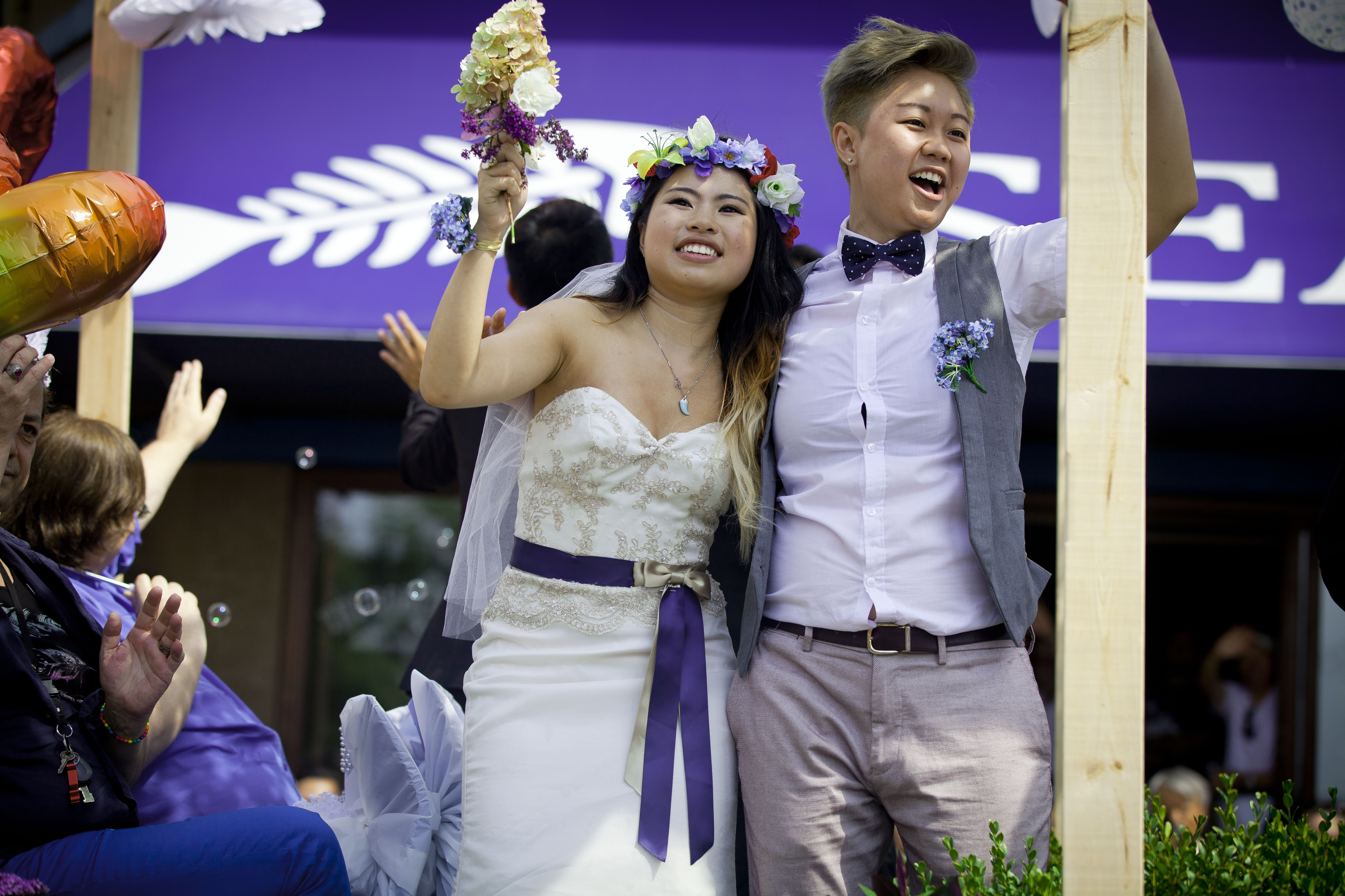 Pride Parade